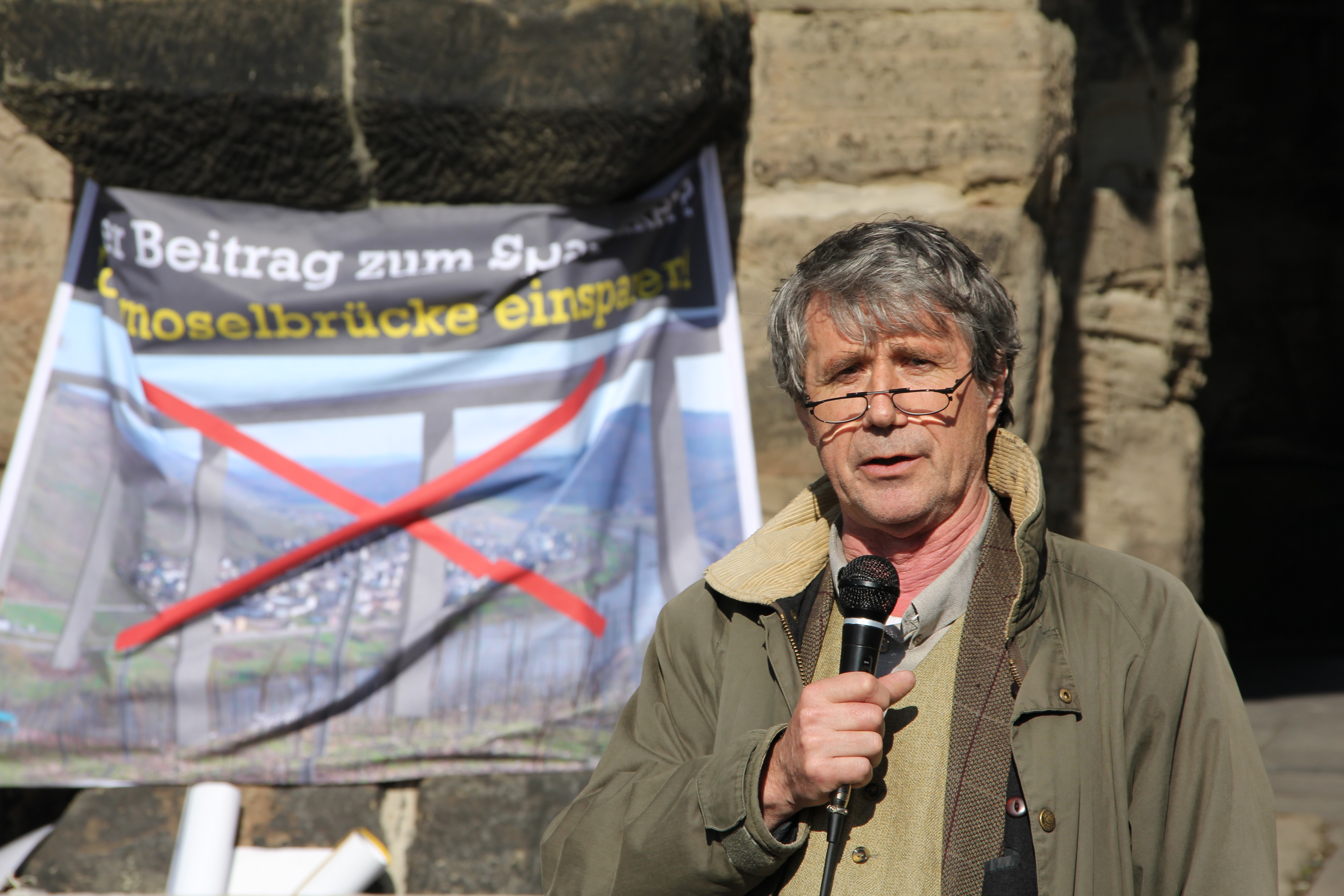 Prof. Dr. Heiner Monheim, Trier, Germany, during public debate